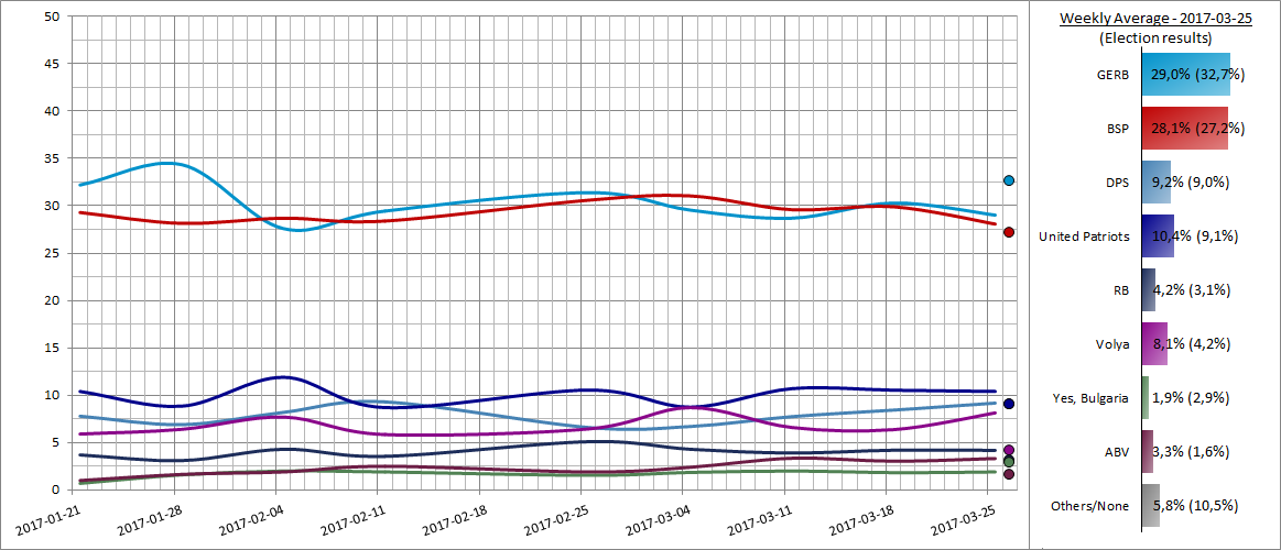 Graph of Bulgarian polls with a weekly average from January 2017 to the election in March 2017